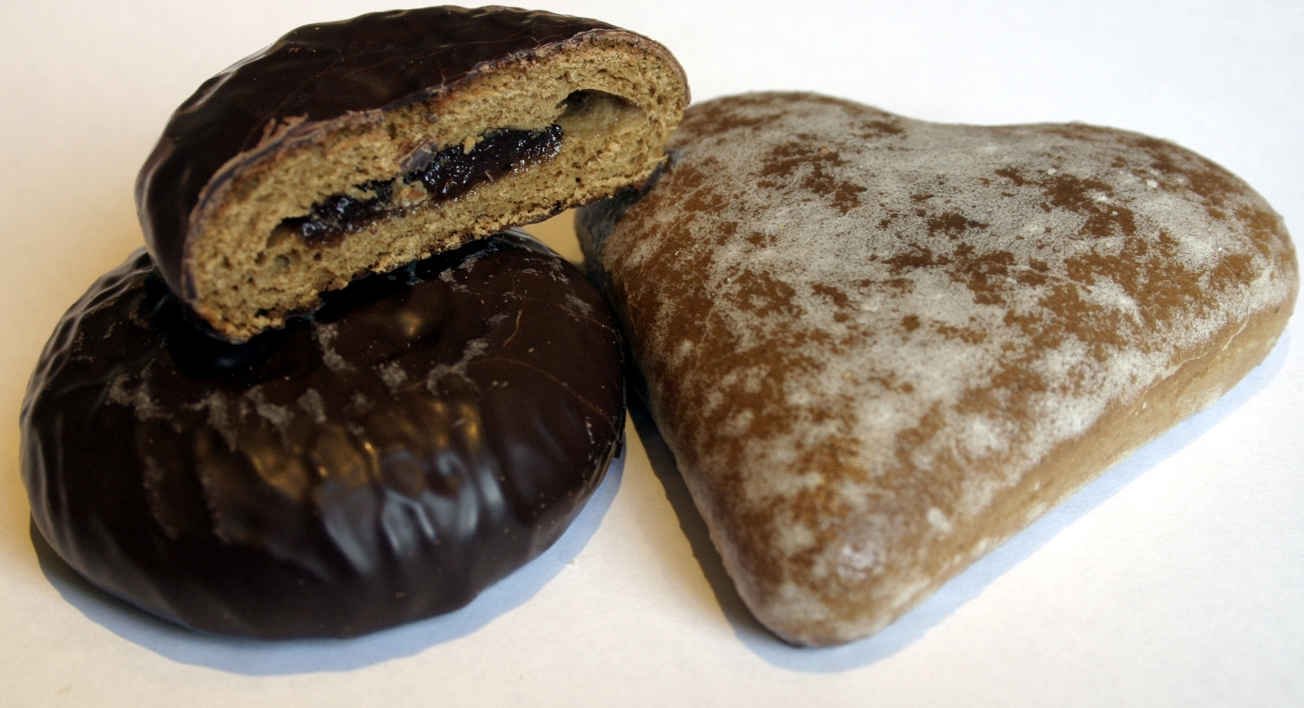 Polish gingerbread cookies from Toruń